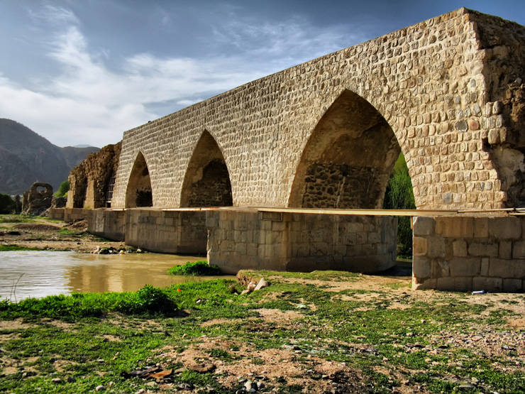 Shapouri bridge, Iran